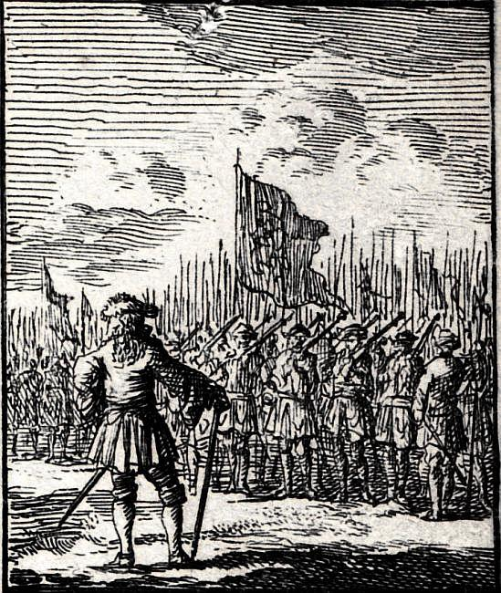 The Schutterij, a voluntary city guard or citizen militia in the medieval and early modern Netherlands. Tiny etched sketch by Romeyn de Hooghe for the title page of Gysbert de Cretser's Description of The Hague, probably from around 1700. De Schutterij, wellicht rond 1700 geschetst door Romeyn de Hooghe voor de titelpagina van Gysbert de Cretsers Beschryvinge van 's Gravenhage.